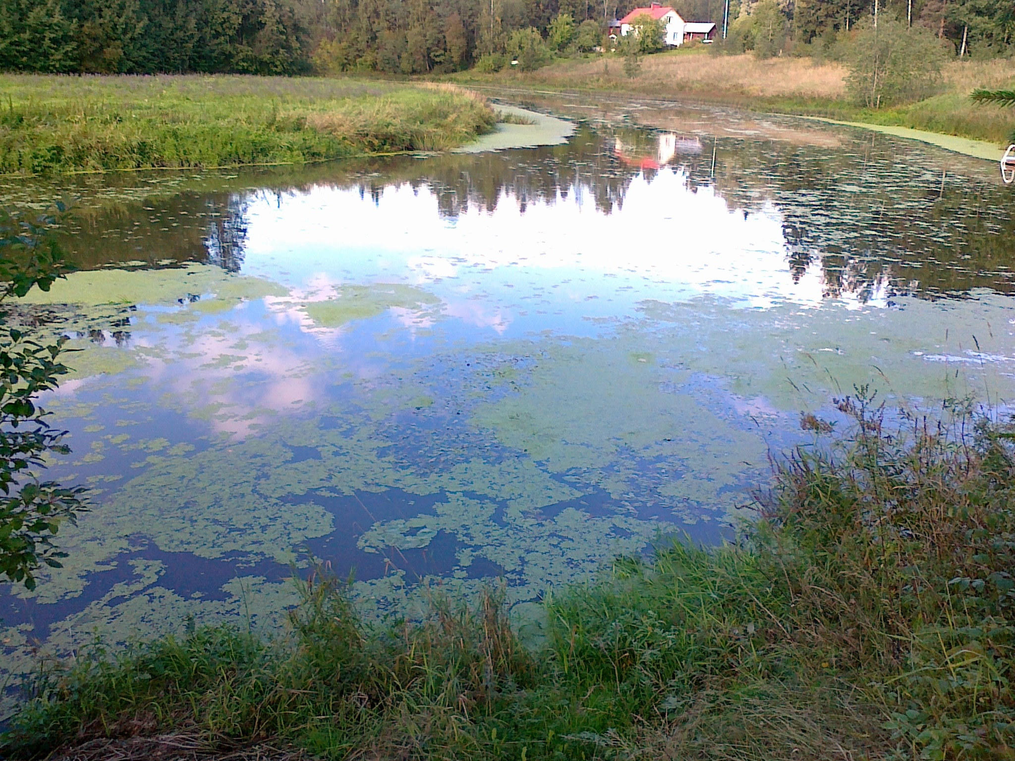 Lemna gibba floating in Porvoonjoki river